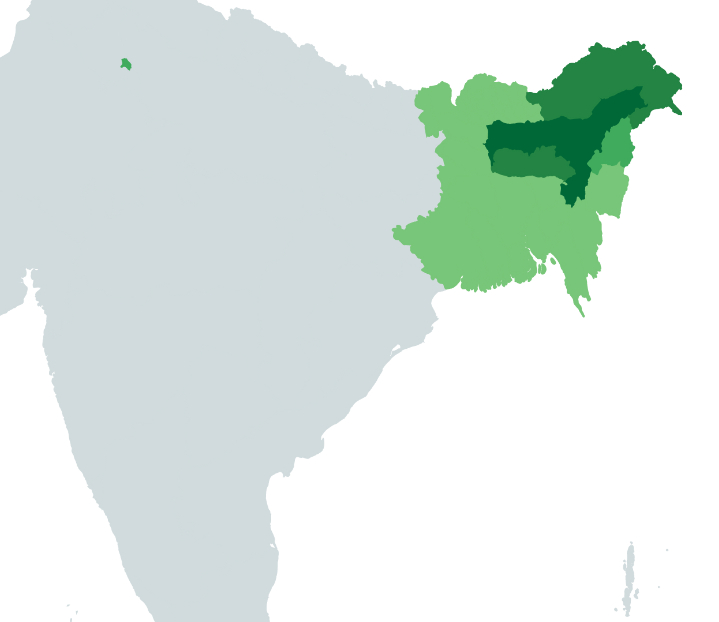 Location of Assamese speakers